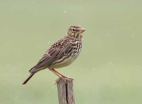 Large-billed lark in De Hoop Nature Reserve, Western Cape, South Africa